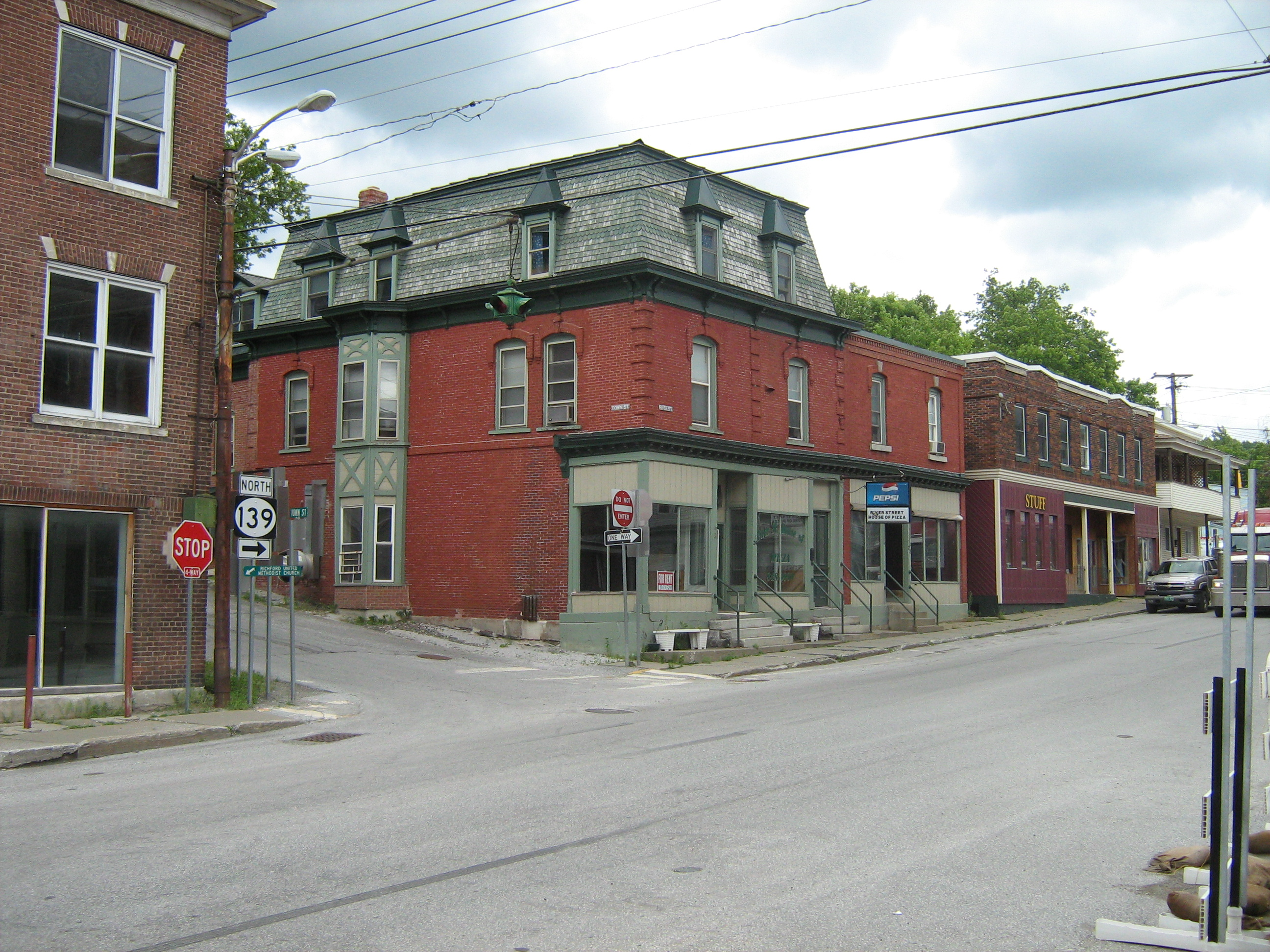 The Downtown Richford Historic District: four streets (Province, Main, River, Town Hill) come together at what used to be the commercial center of the village.